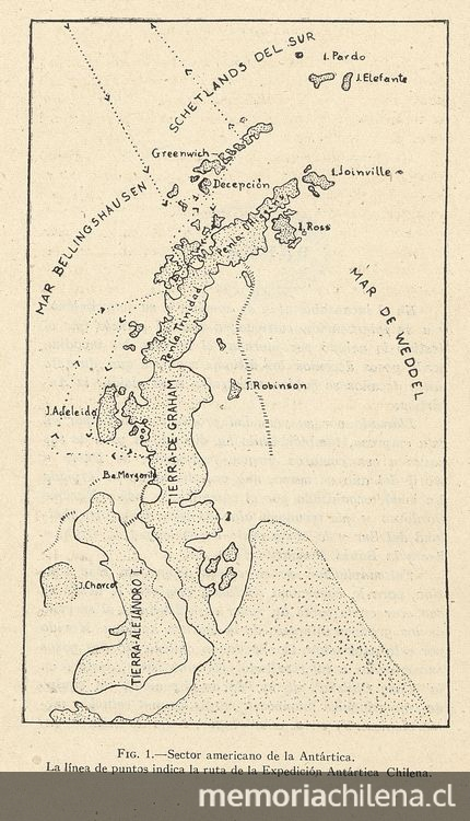 First Chilean Antarctic Expedition route, 1947